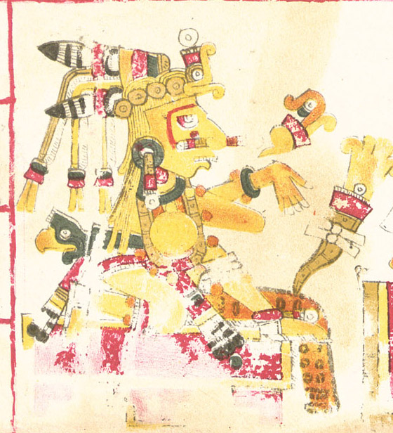 God Xochipilli, described in the Codex Borgia.